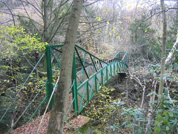 Gunners Pool Bridge in Castle Eden Dene, County Durham, England. The bridge is one of sixteen that cross the Castle Eden Burn. It was fabricated in Hartlepool in the late 19th century for the Rev. John Burdon, whose family owned Castle Eden Dene, and is thought to have been erected in June 1877.